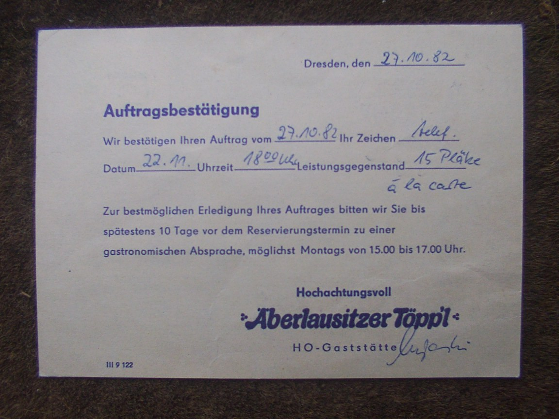 I like the idea of the Gastronomische Absprache on Monday afternoons. I guess the Aeberlausitzer -dialect for Oberlausitz?- Toeppl would be frequently empty with all the tables "reserviert" and a sign asking "ON SPEC" customers to wait until a space could be found. Great memories... And here is an actual picture of the queue to get in, perhaps for a Gastronomische ABsprache. I guess this also concerned alcohol, as this establishment pride itself on the (intermittent) supply of Black Beers from Loebau. and here are some DDR intellectuals inside (click on magnification) According to this West German directory of DDR hospitality, only the GDR has a worse gastronomic reputation than that of Great Britain!